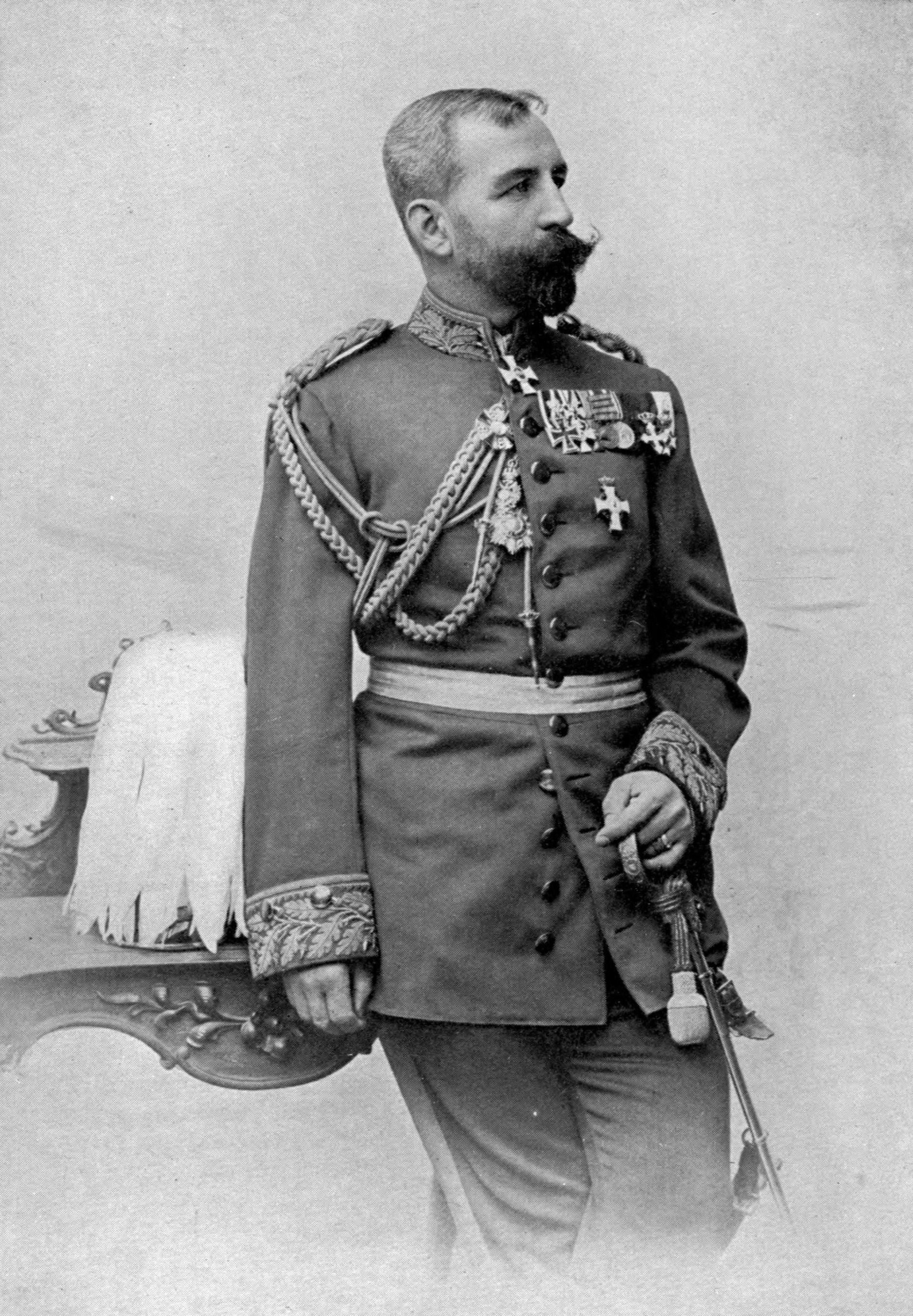 Portrait photograph of Friedrich von Bernhardi (1849-1930)